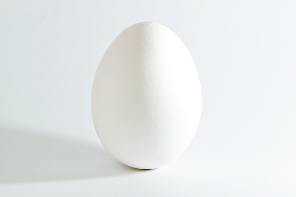 A generic white chicken egg.